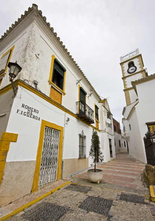 Calle Romero de Figueroa next to the Church of St. Mary the Crowned in San Roque.